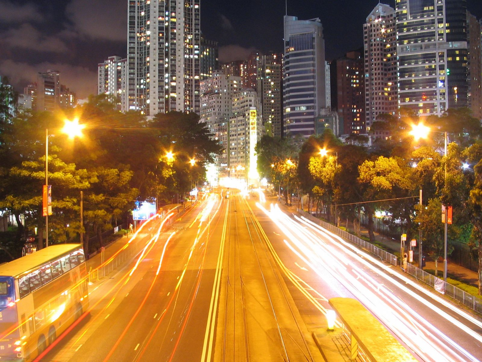 高士威道夜景 Night Scene of Causeway Road